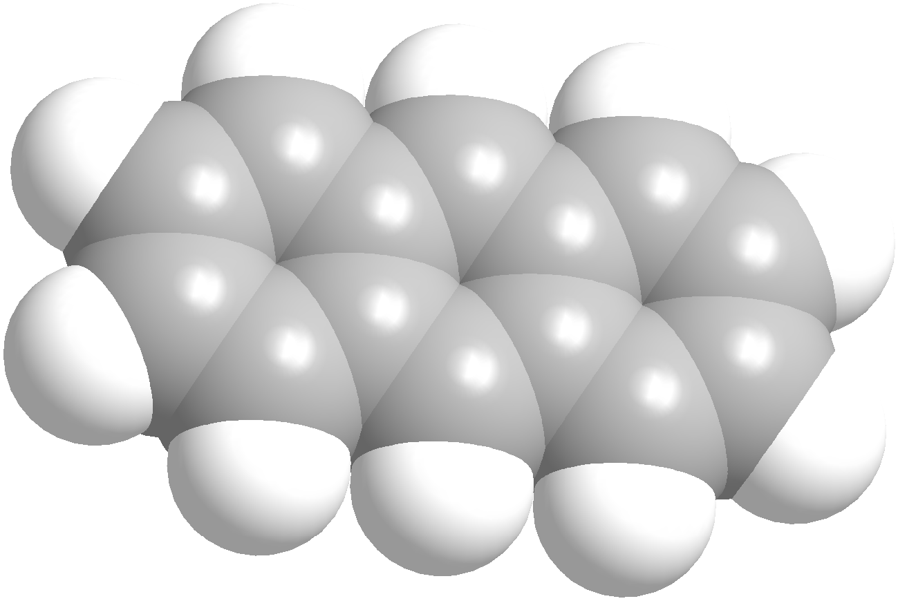 Chem3D depiction of anthracene as spacefilling model.